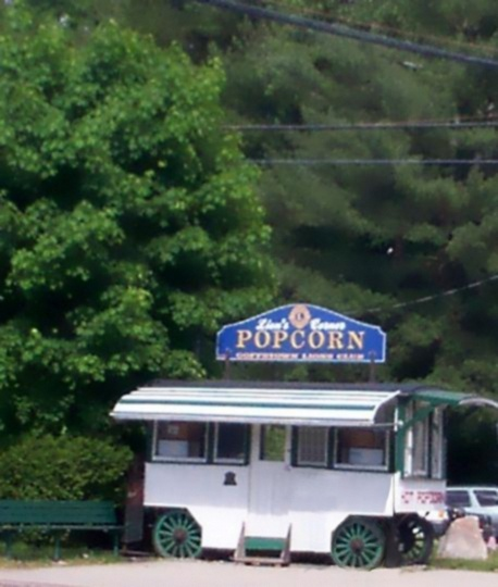 The Popcorn Cart, a landmark in Goffstown, New Hampshire at the junction of New Hampshire routes 13 and 114.